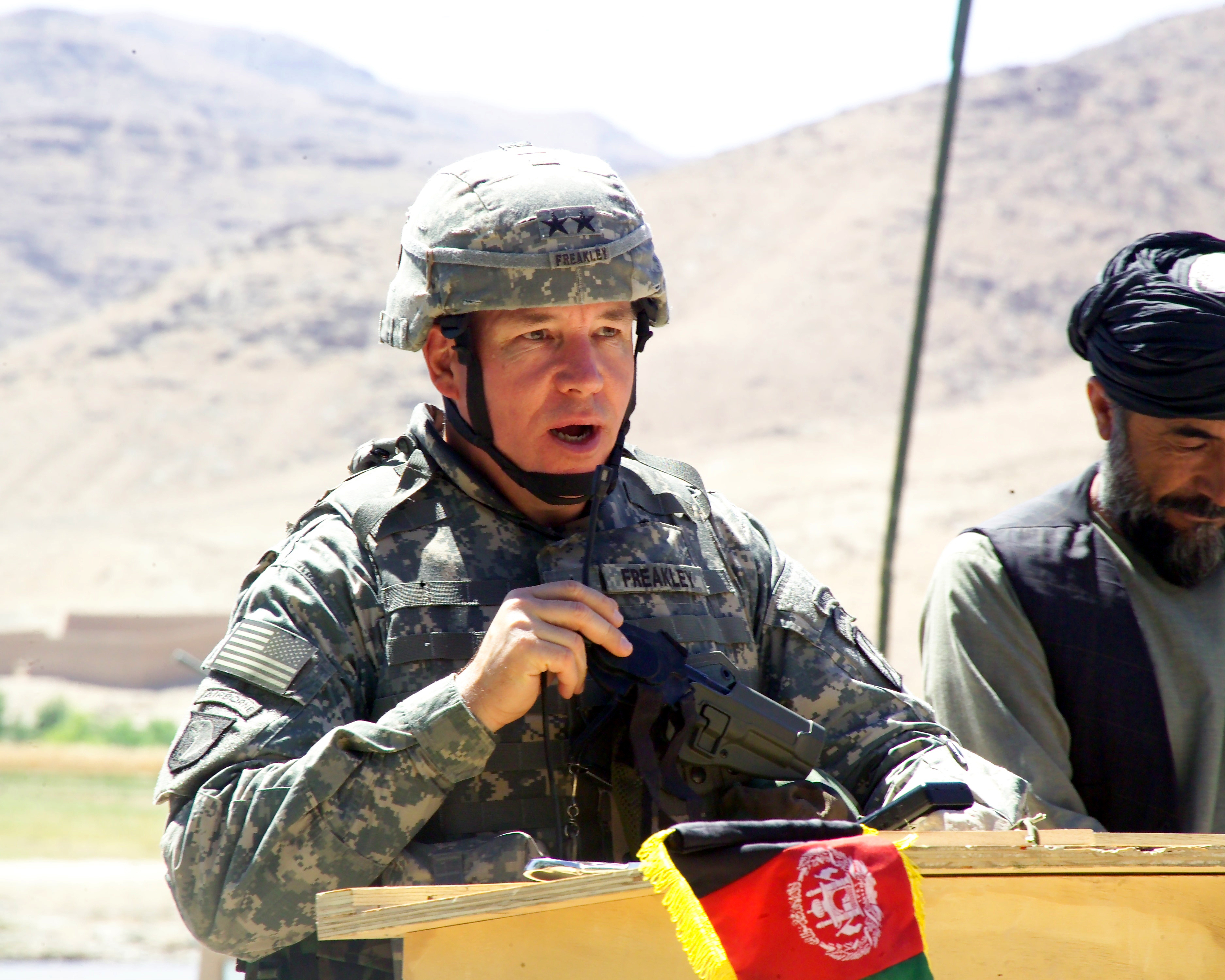 Combined Joint Task Force 76 Commander Army Maj. Gen. Benjamin Freakley discusses security and infrastructure during a bridge opening ceremony in the Cahar Chineh district of Afghanistan's Uruzgan province on May 29.